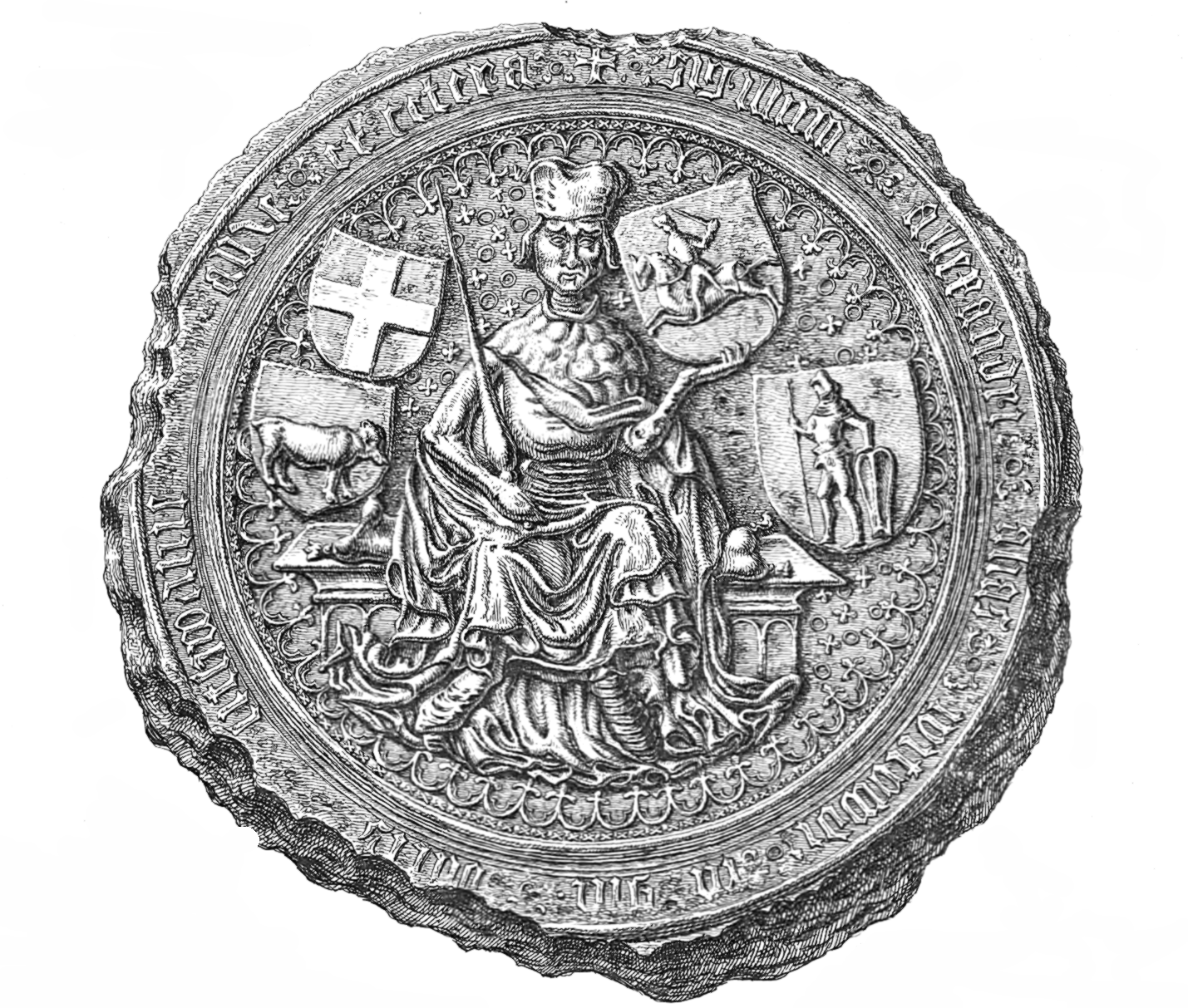 Witold duke of Lithuania seal. 1407